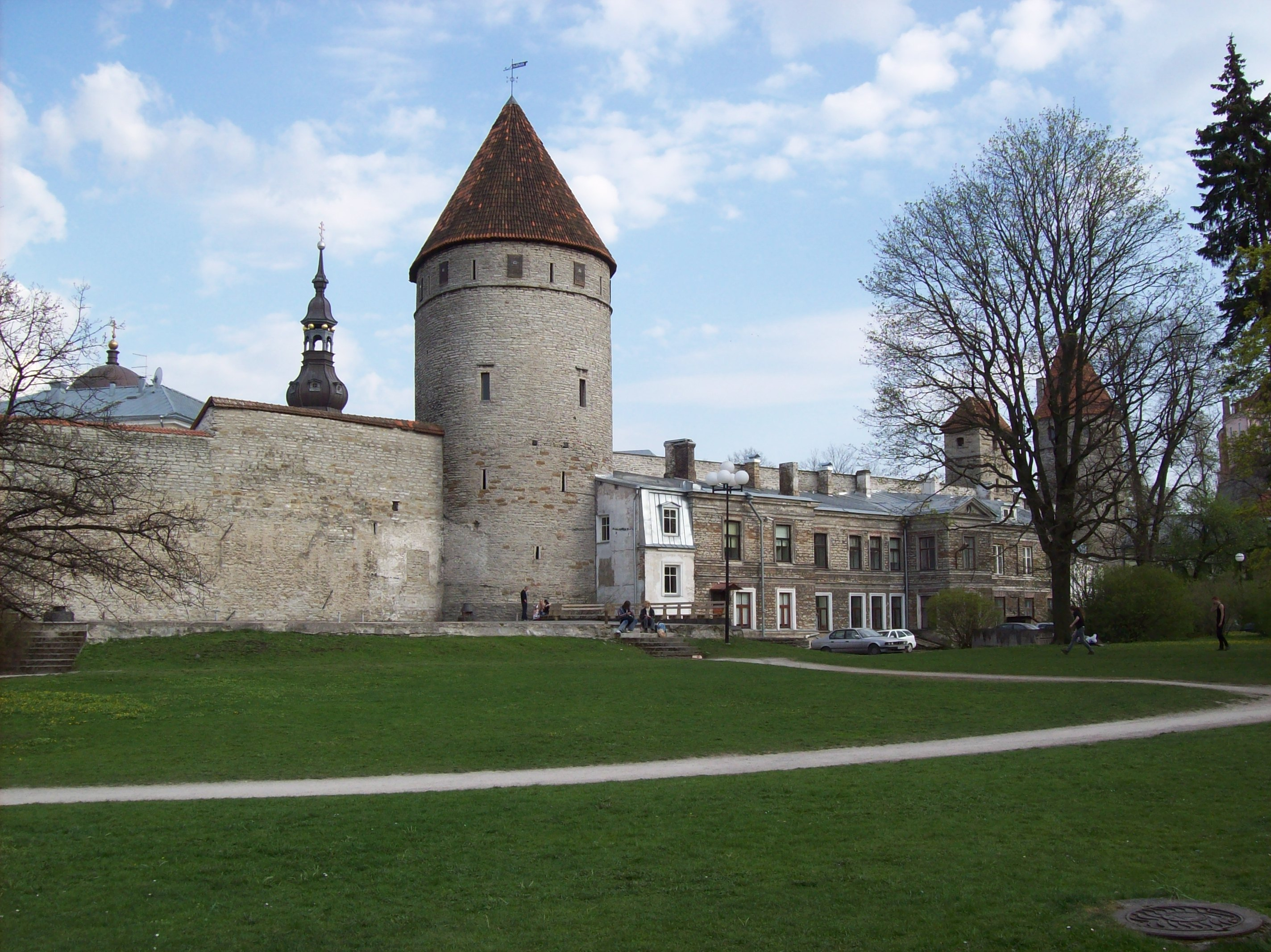 City walls of Tallinn